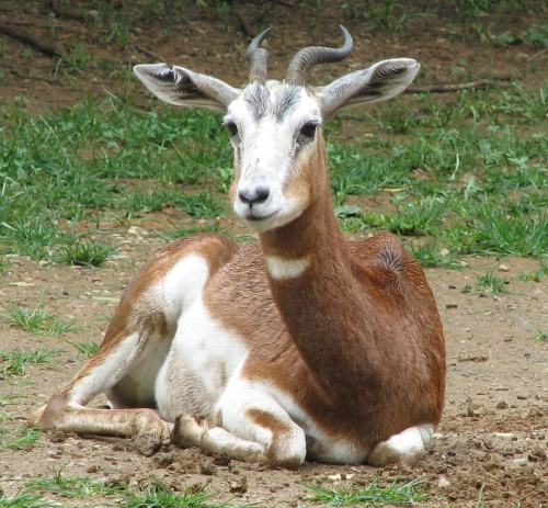 Mhorr Gazelle at Louisville Zoo Author is myself User:ltshears